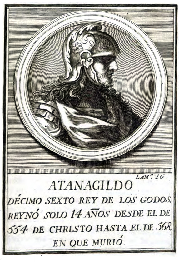 A poster of ATANAGILDO, Visigoth king, n° 16 in the chronological order of the book digitalized by Google since the bookshop in the University of Oxford.